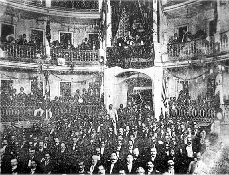 Old photo of Salvador - Bahia - Brazil: The "Saint John Theater" (1808-1922